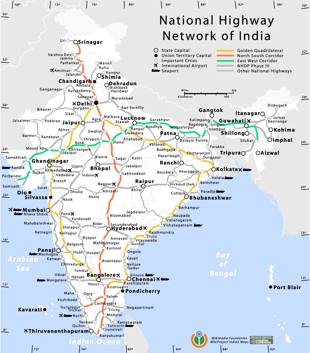 National Highway Network map of India